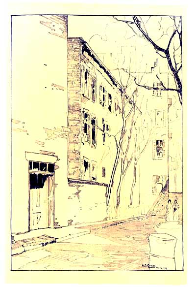 Patchin Place (illustration from Greenwich Village by Anna Alice Chapin)